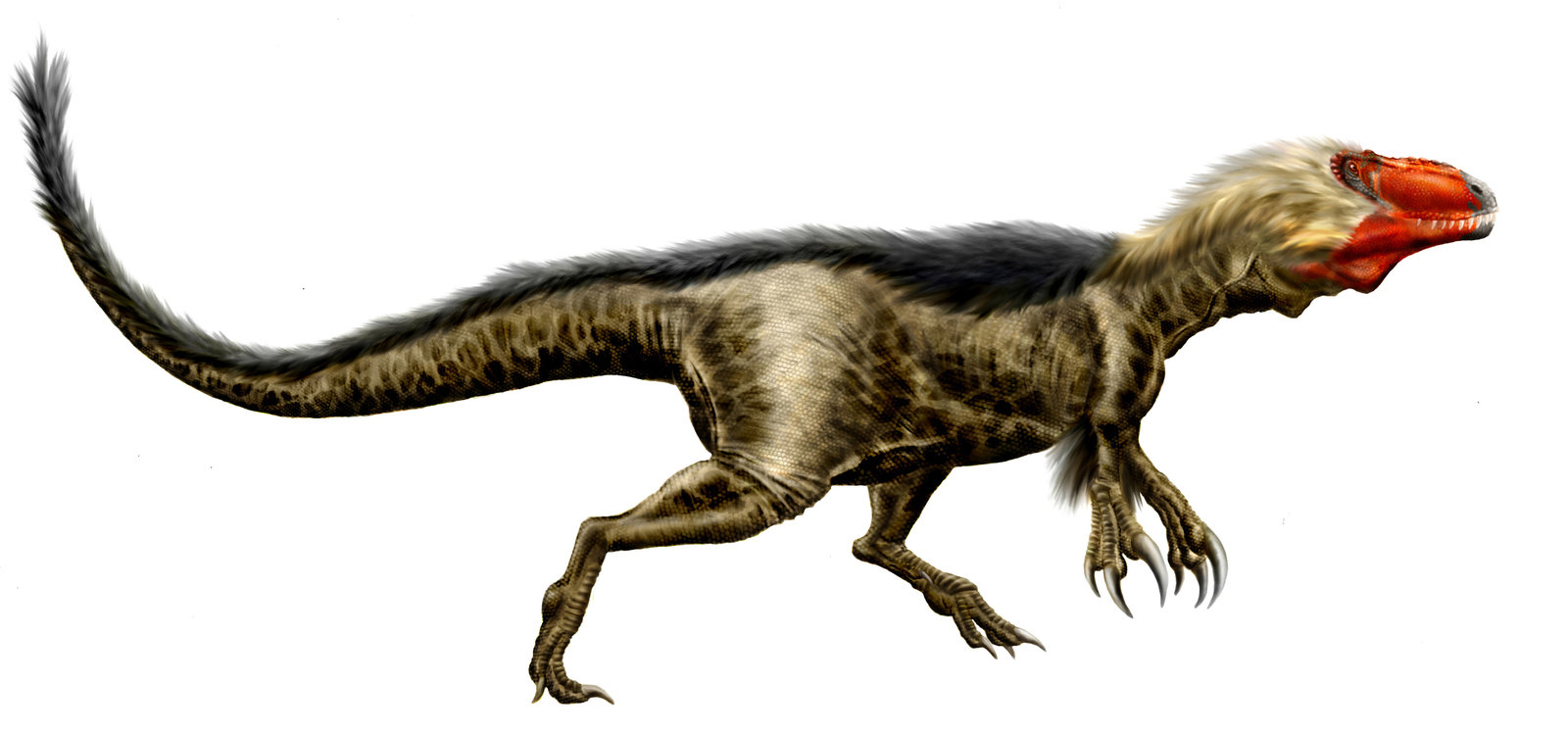 Late Cretaceous basal tyrannosaur Dryptosaurus